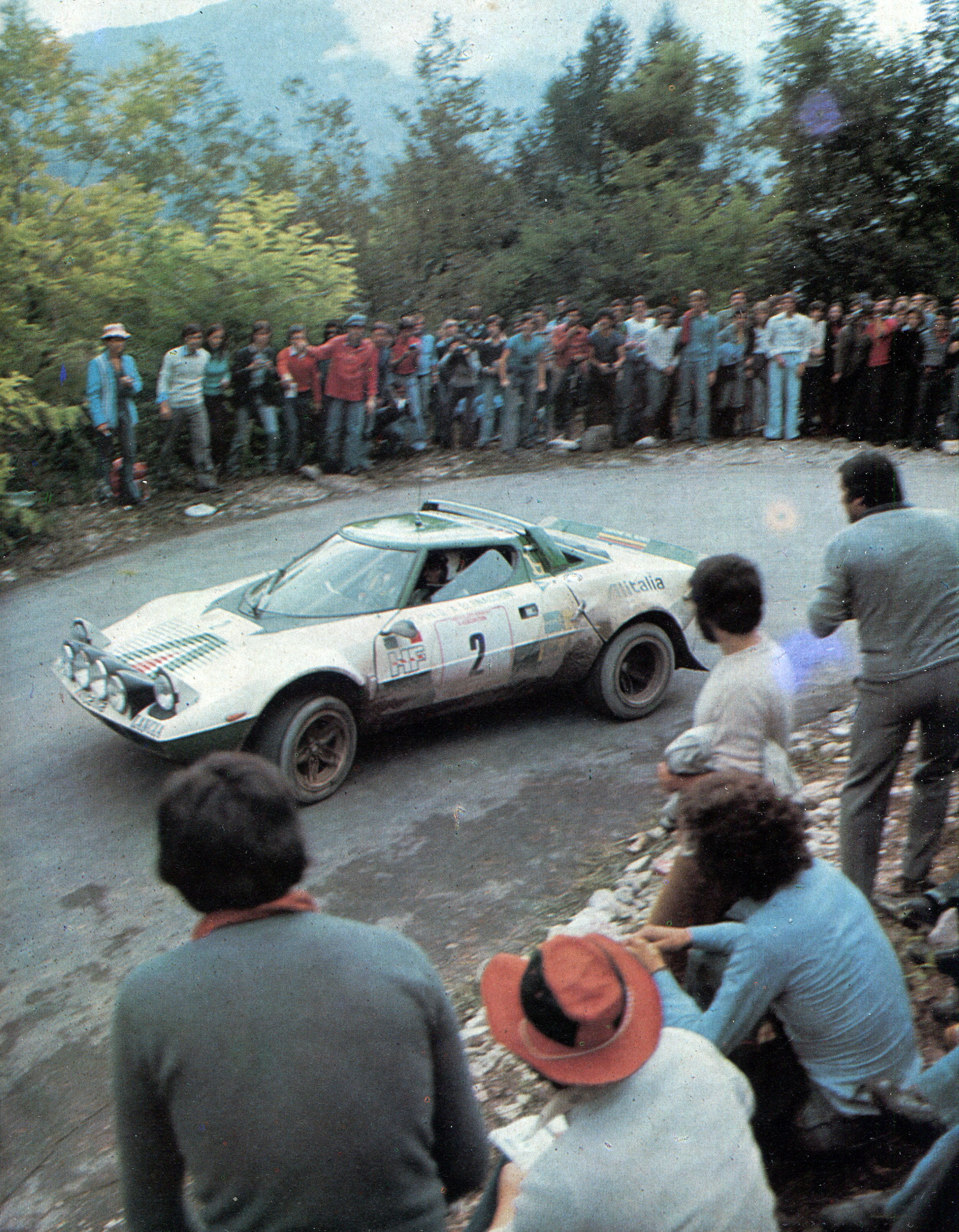 Italian rally driver Raffaele "Lele" Pinto and his co-driver Arnaldo Bernacchini on a Lancia Stratos HF (Group 4) sponsored Alitalia at Valnevera special stage valid for the 1975 Rallye San Martino di Castrozza (Trento, Italy).